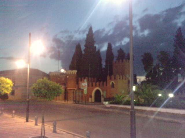 Castle of Láchar (Granada province, Spain), in the Royal street.